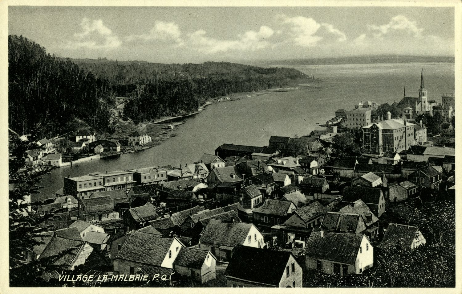 Village La Malbaie, carte postale, Novelty Manufacturing & Art Co.